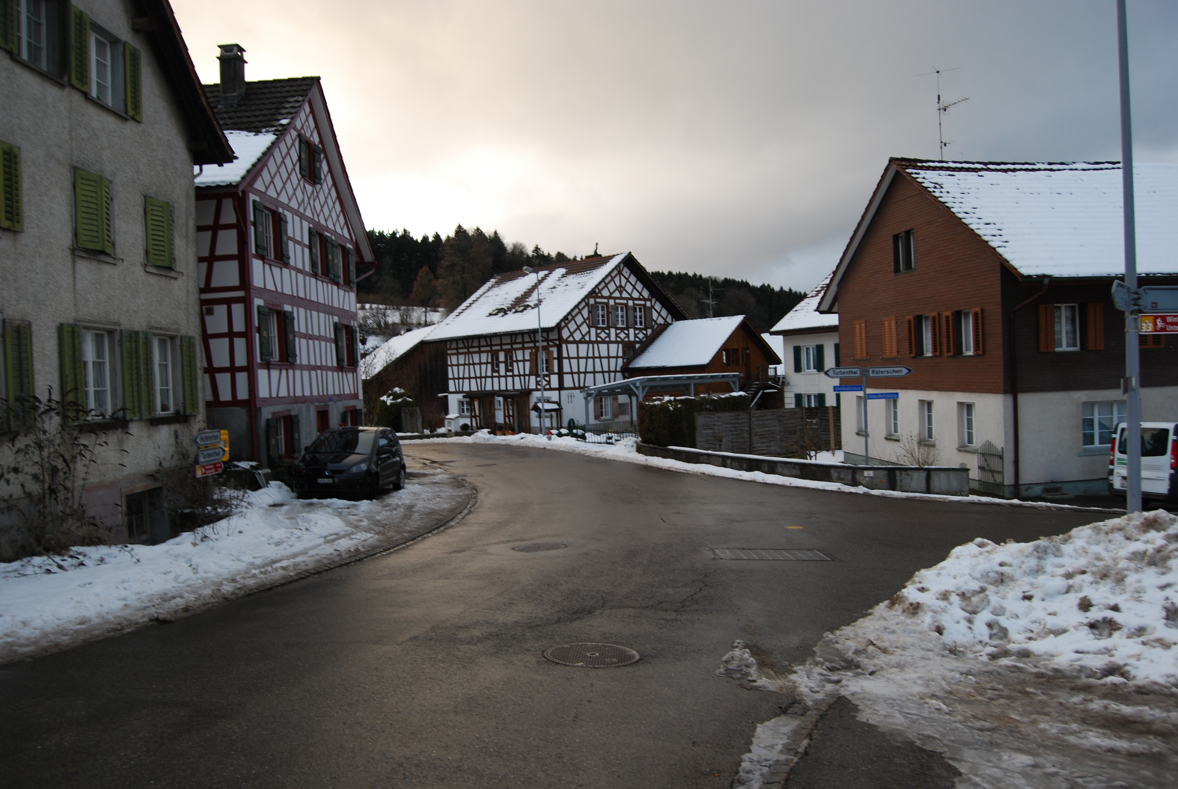 Oberschlatt, municipality of, canton of Zürich, SwitzerlandEsperanto: Oberschlatt, komunumo Schlatt, Kantono Zuriko, Svislando